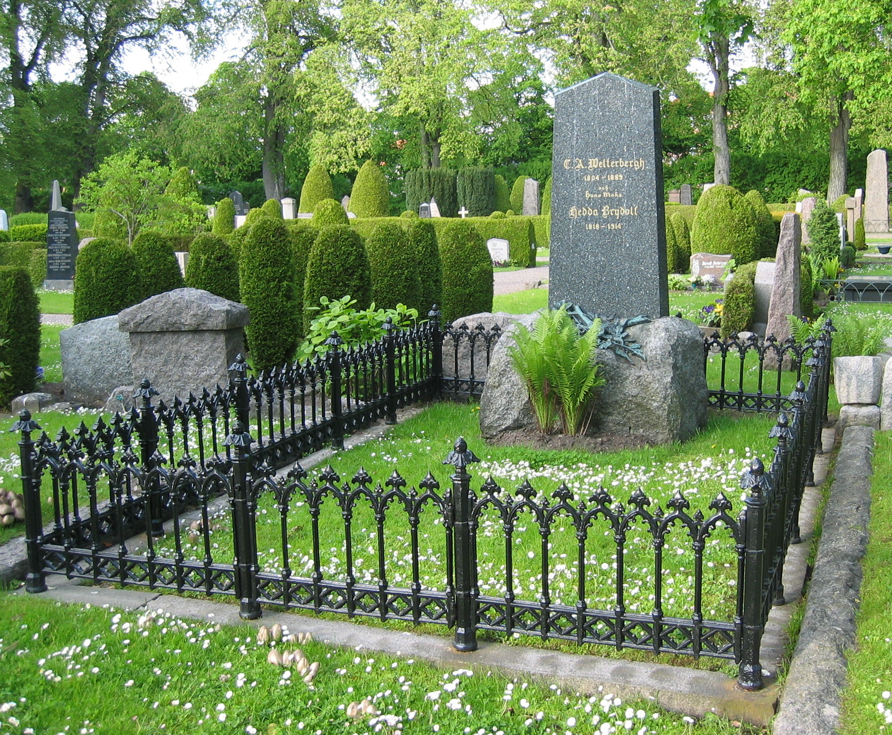 Tombstone and grave of C.A. Wetterbergh (Onkel Adam, Swedish writer, 1804-1889) in Linköping, Sweden, and his wife Hedda Brydolf (1818-1914).